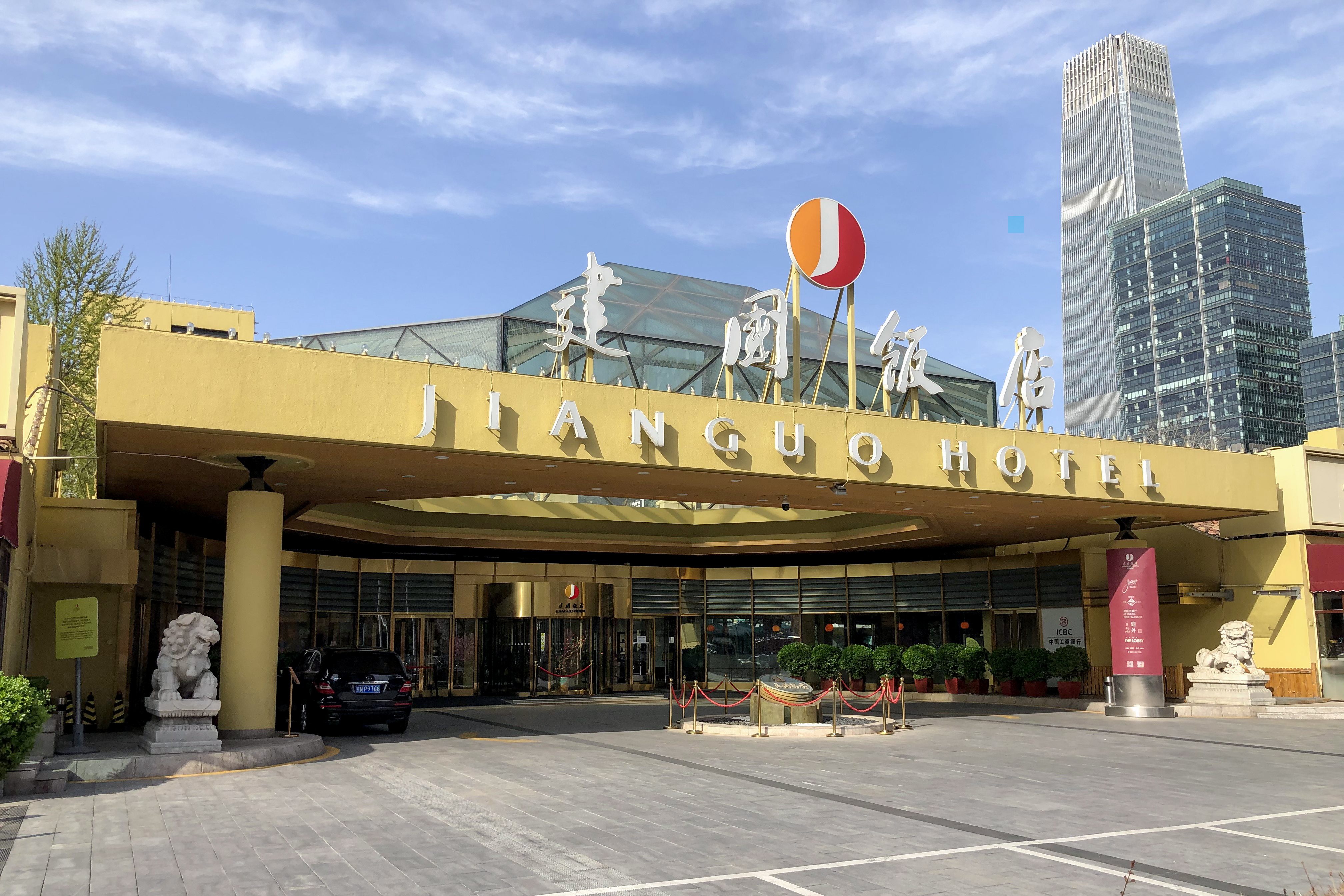 Also in Jianwai, west of Jinglun.